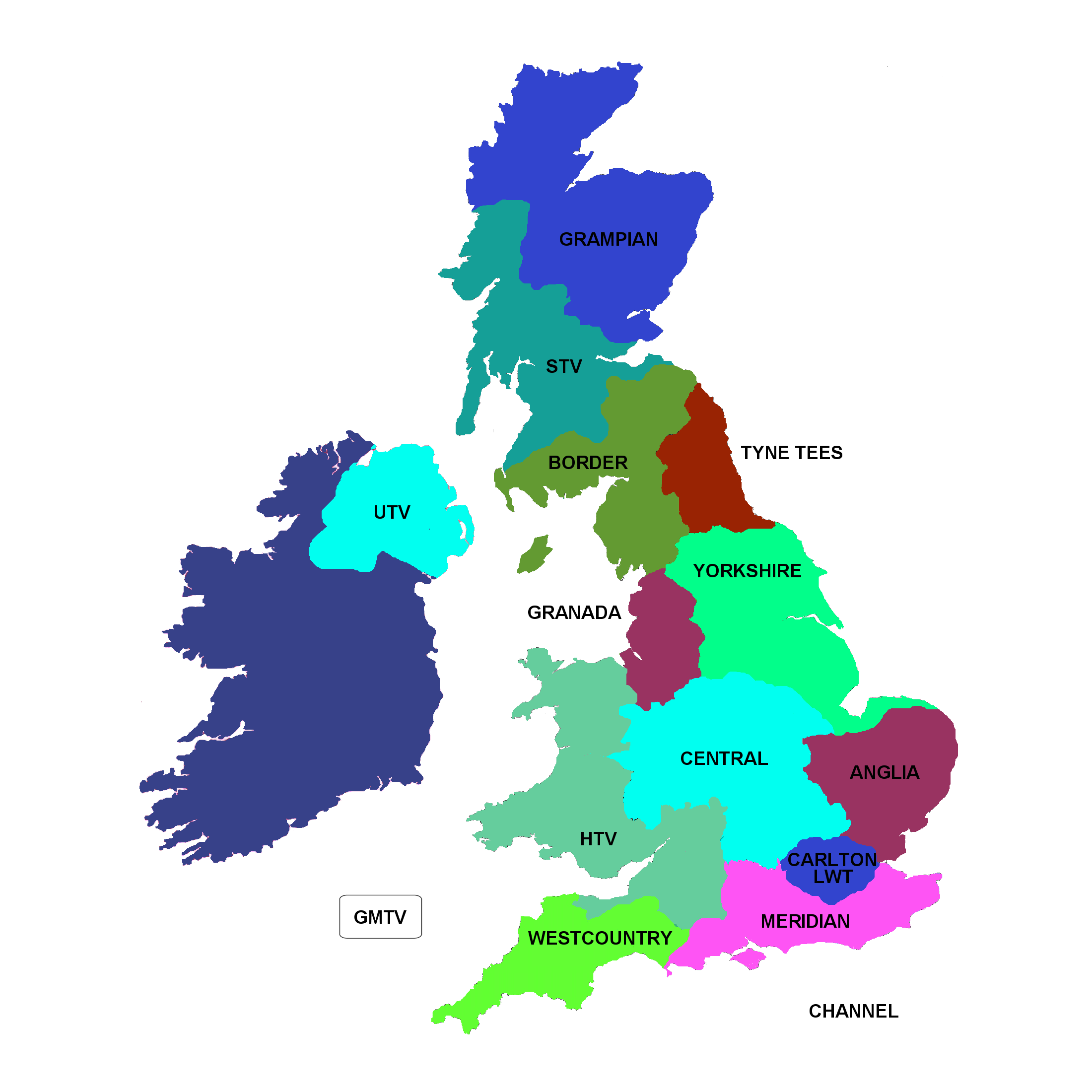 A map of the UK Independent Television (ITV) regions from the major changes of 1993 until disappearance of regional names began in 1999. Regions shown are approximate. Overlaps between regions, were extensive. Boundaries follow, roughly, the areas where the majority of viewers were watching an overlap region, except in cases where a natural boundary (national borders, mountain chains) provide a more sensible break. Overlaps are therefore not shown. GMTV has now replaced TVam.